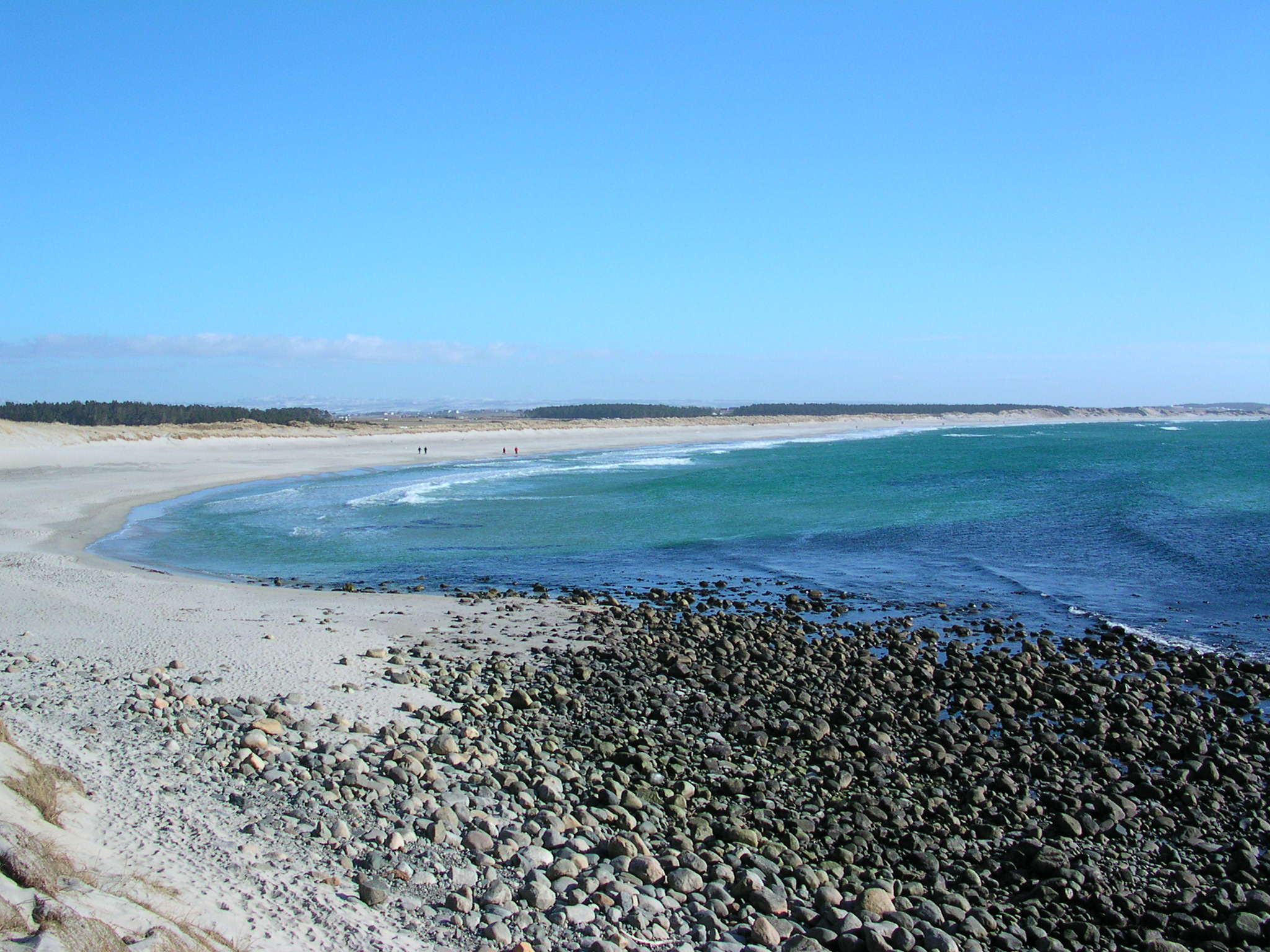 Sandy beach at Orre in Klepp municipality in Norway. Picture taken by Gunleiv Hadland User:Gunnernett